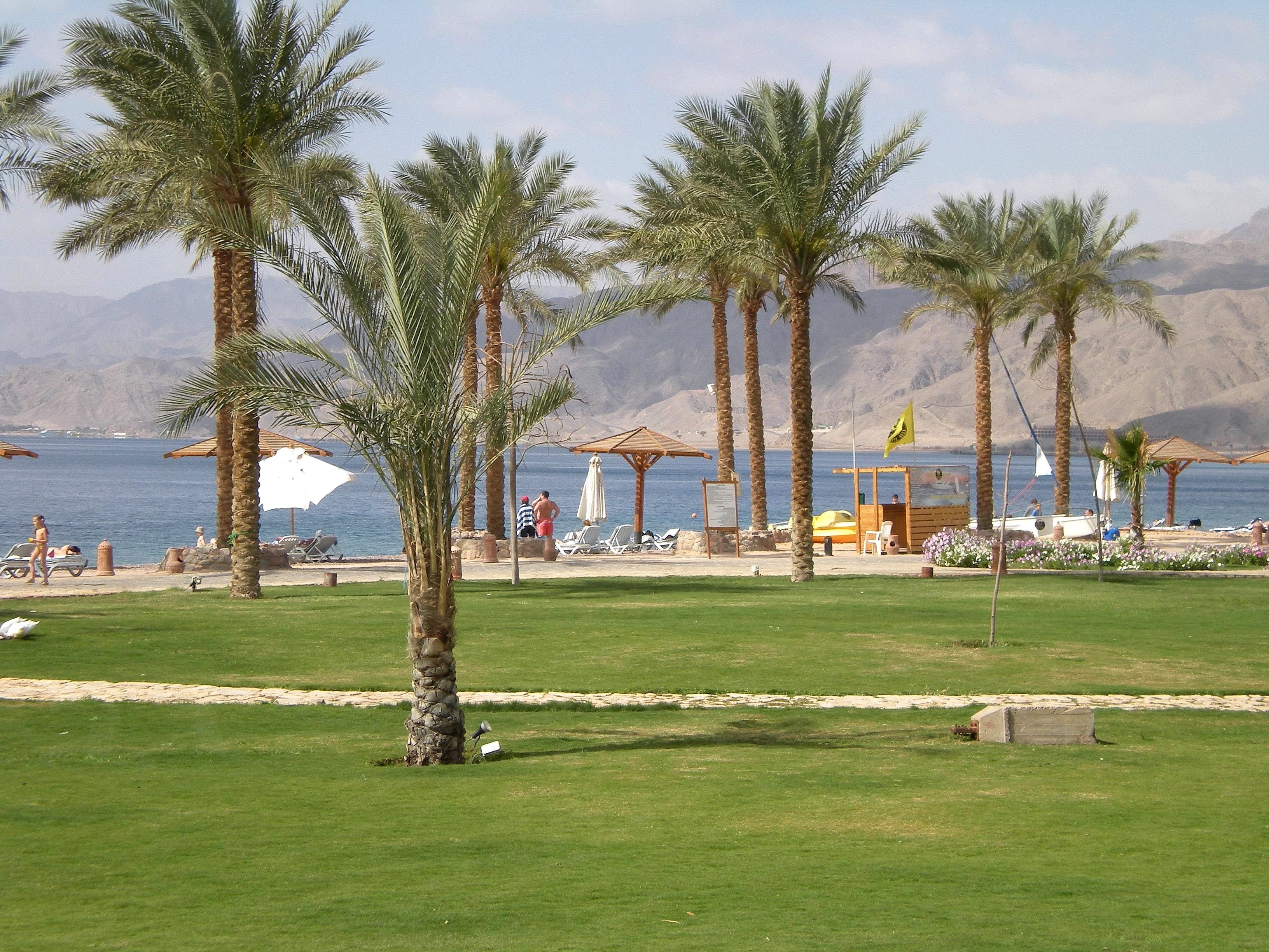 Image title: Palm beach Image from Public domain images website